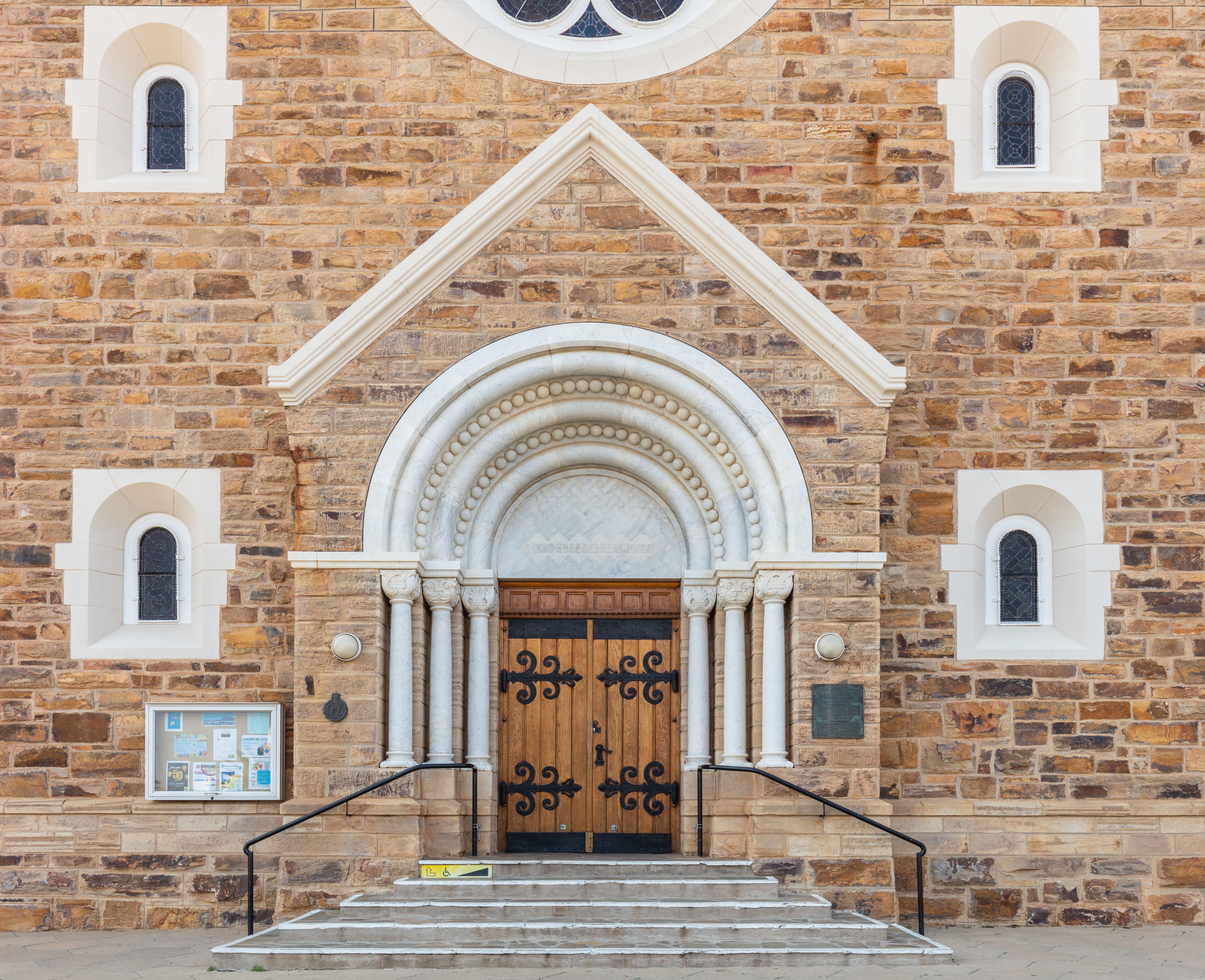 Christ church, Windhoek, Namibia